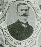 Portrait of IMARO member Pavel Shatev from Kratovo